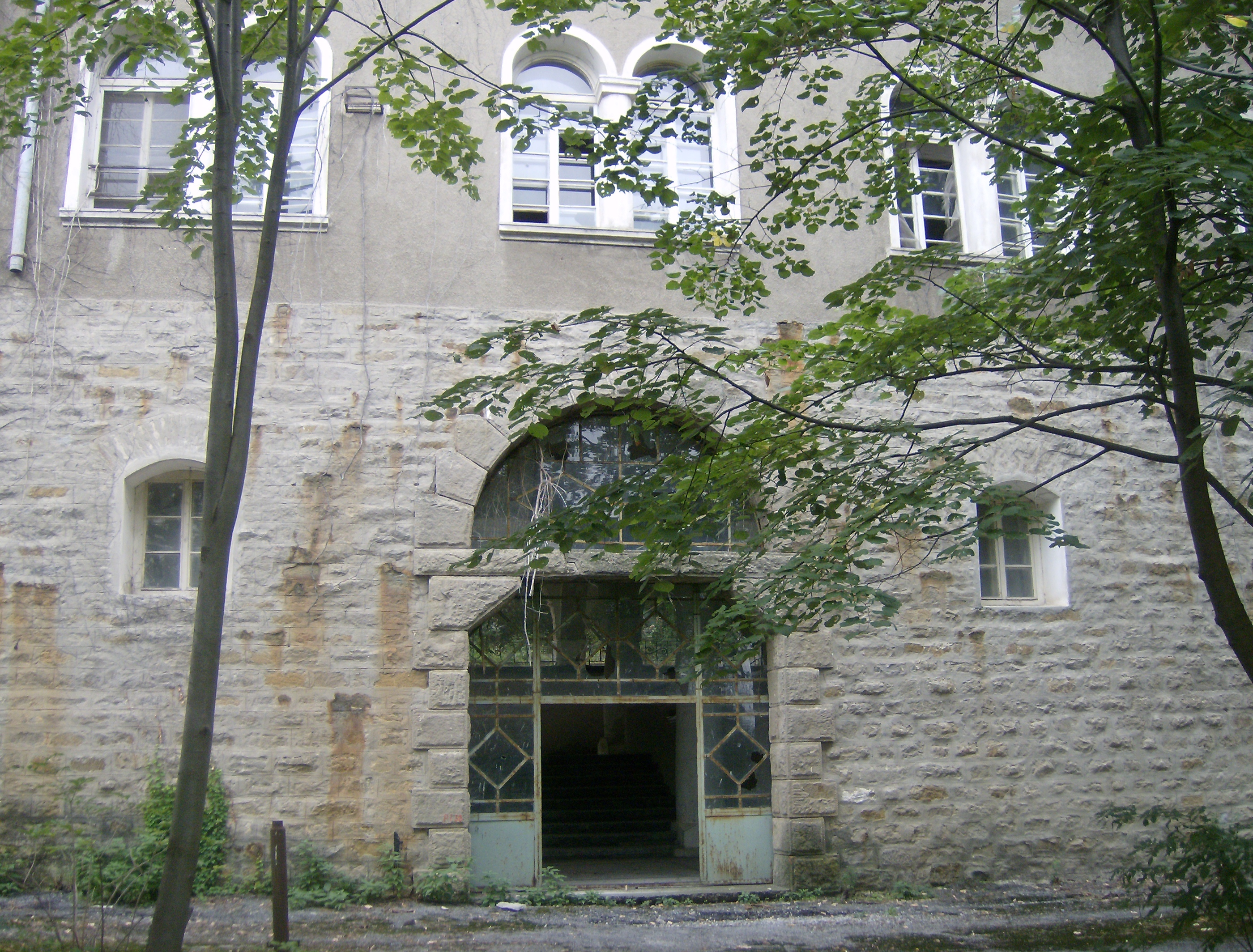 Preslav monastery